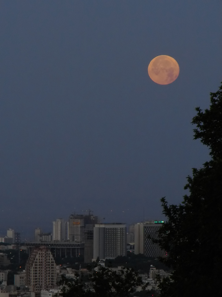 Sorry for the noisy and low quality photo. This is not due to my camera. The grainyness is because of hazy weather which increased its density near horizon! The right most tower in the photo is Esteghlal Hotel (aka Hilton) near Chamran/Valie Asr (Aka Parkway/Pahlavi) cross. I took this shot about 20 minutes before sunrise. So the city is almost visible in available light. Added to Flickr Explore (interestingness) page of 12 June 2006.